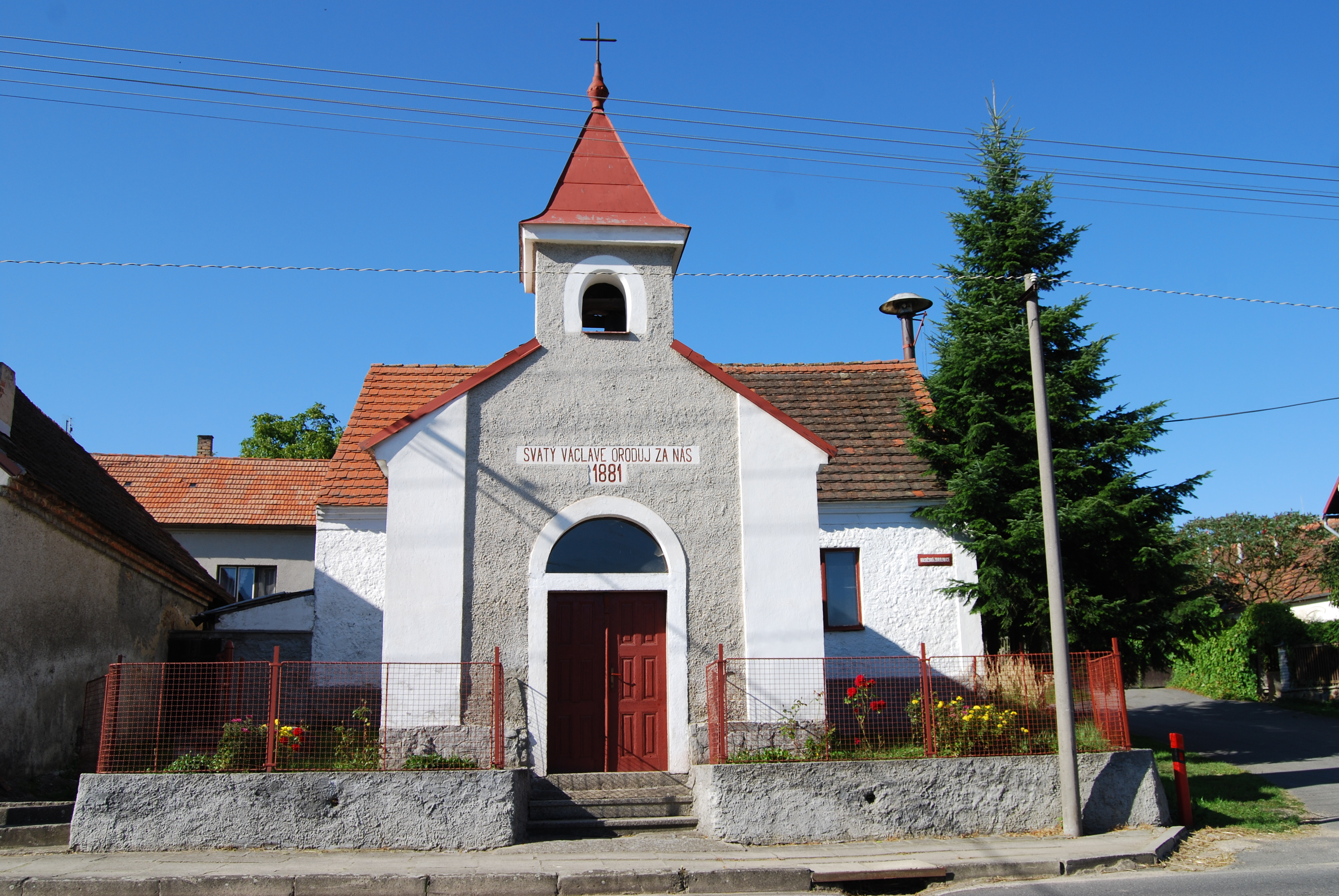 Branice village in Pisek District, Czech Republic. Chapel